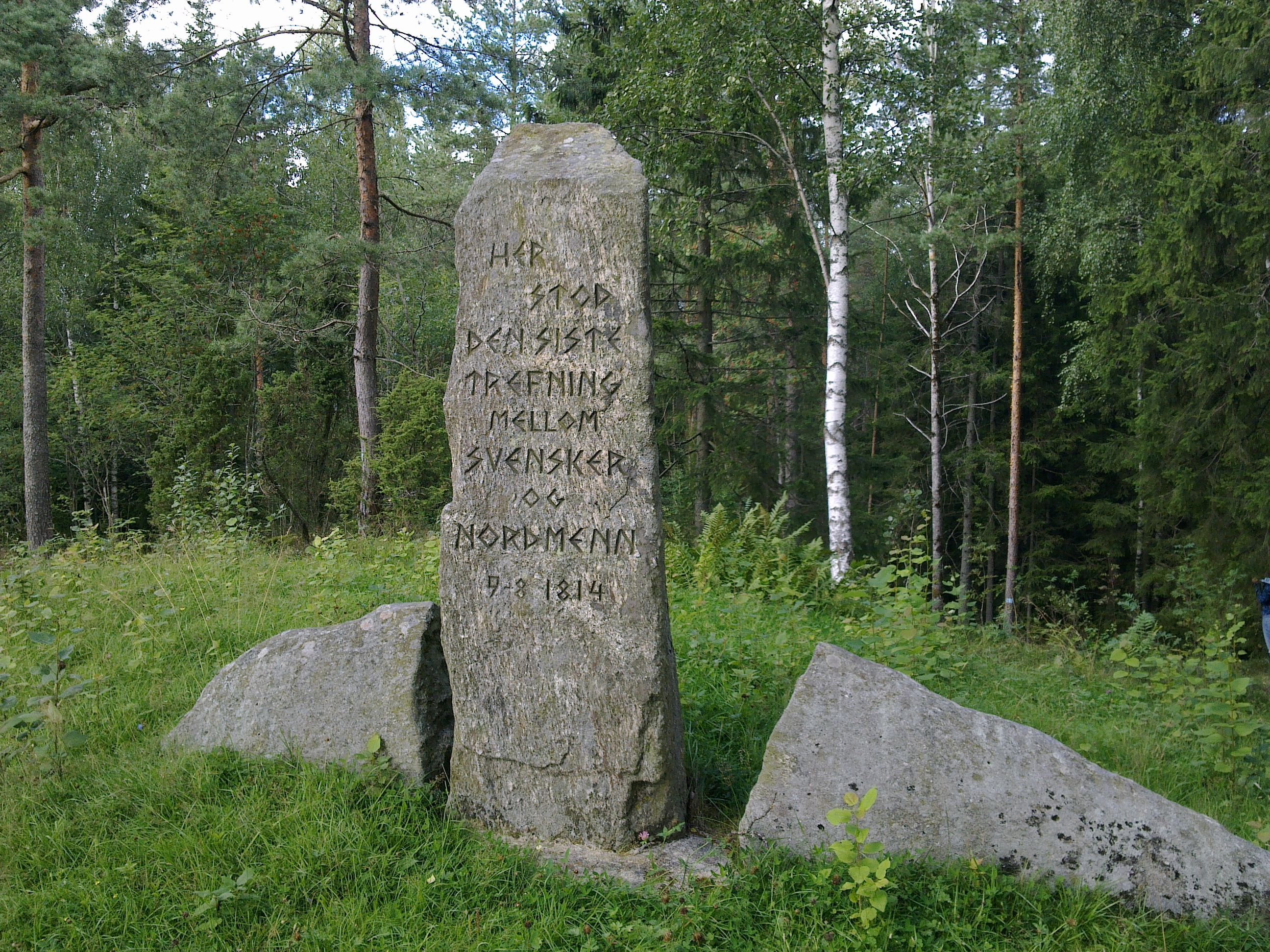 Memorial marker at the top of the Norwegian fortifications at Langnes skanse.